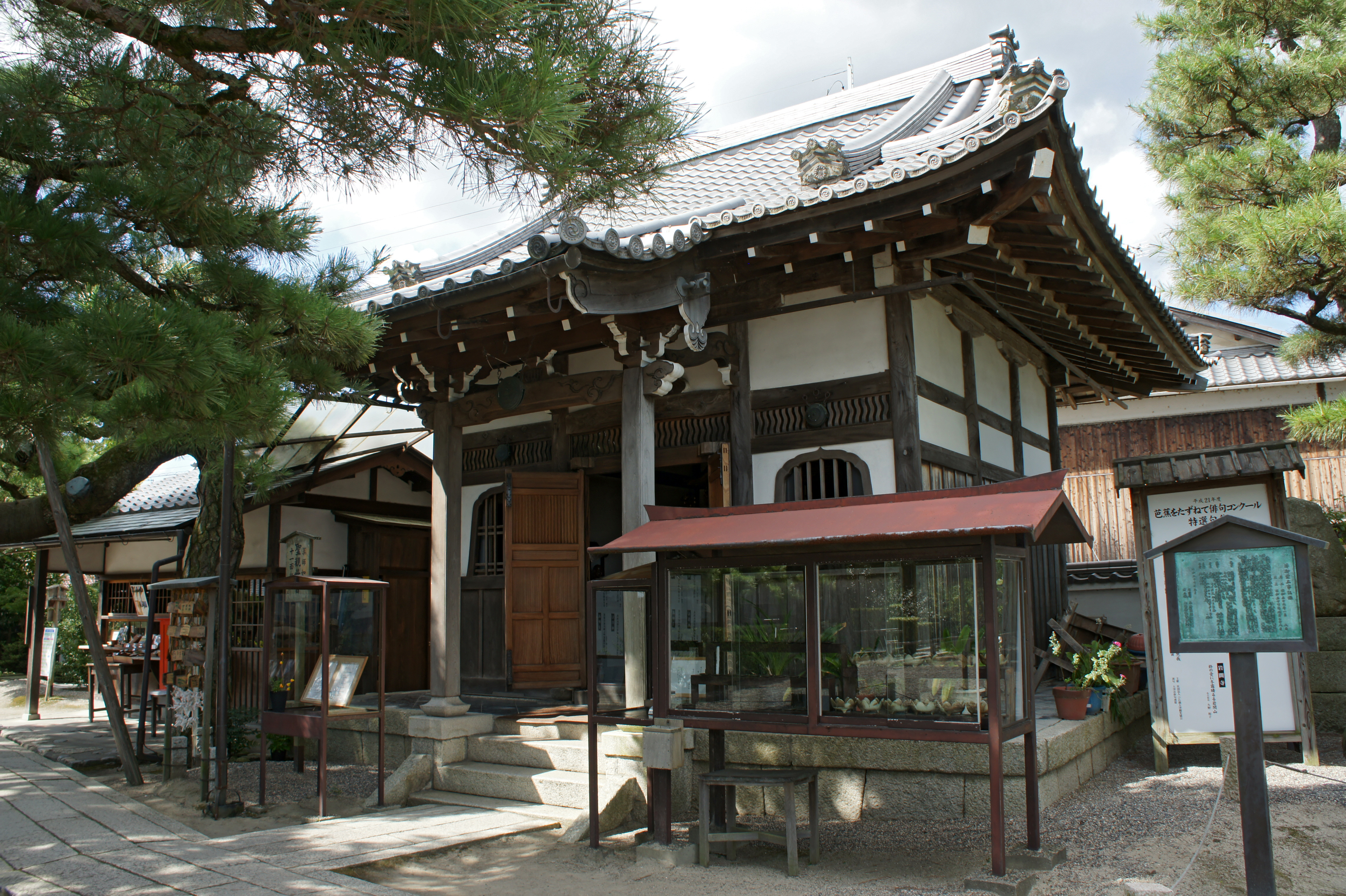 Mangetsu-ji in Otsu, Shiga prefecture, Japan